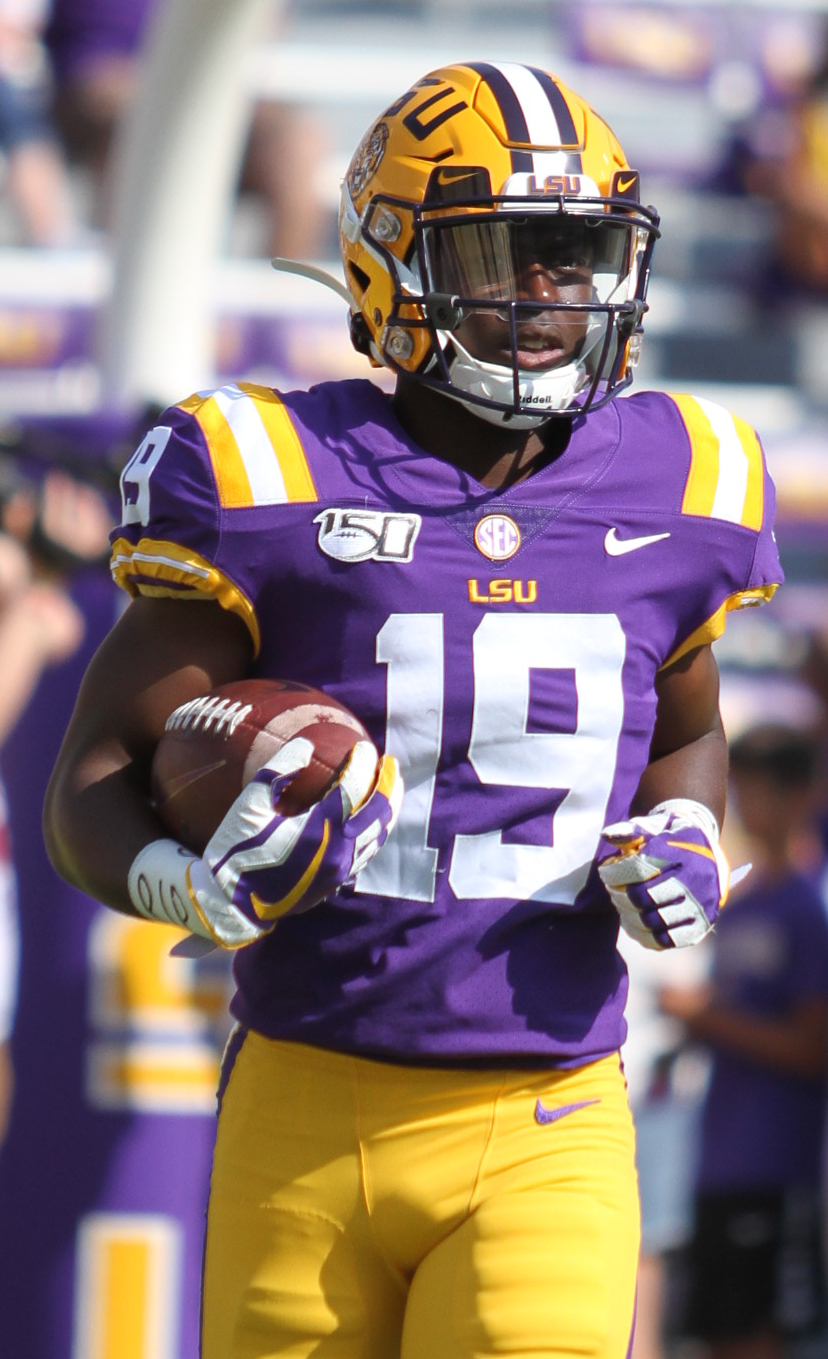 Derrick Dillon, #19, Wide Receiver, LSU Tigers Football vs Utah State Aggies, Tiger Stadium, October 5, 2019, Baton Rouge, Louisiana, Tammy Anthony Baker, Photographer @tabinla @tmabaker @DerrickDillon4